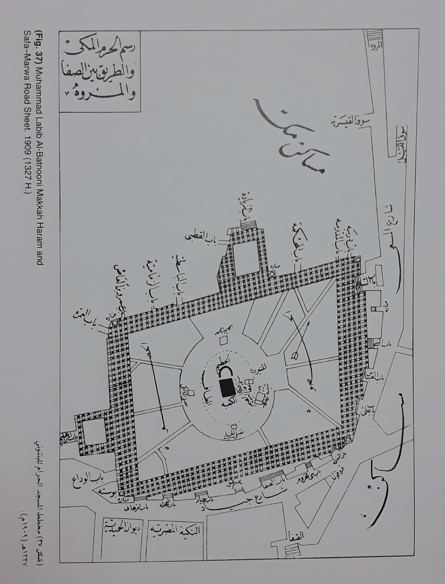 Muhammad Labib Al-Batnooni Makkah Haram and Safa-Marwa Road Sheet 1909 (1327 H.).